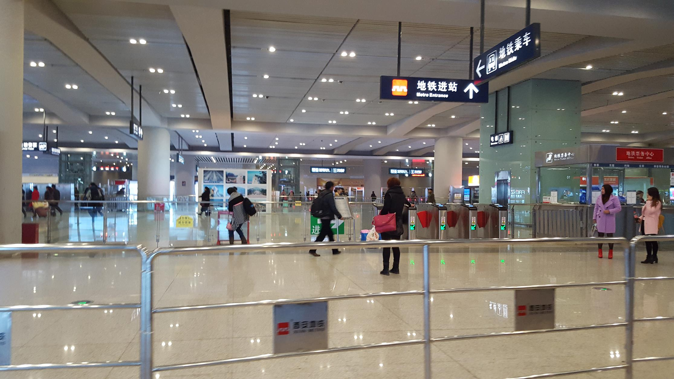 Concourse of BeiKeZhan Station, Xi'an Metro